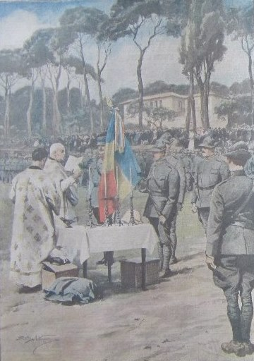 The Romanian soldiers of the 3rd Regiment of the Legione Romena receving the flag, at the ceremony of Military oath on January 26, 1919 in Sena Square in Rome.